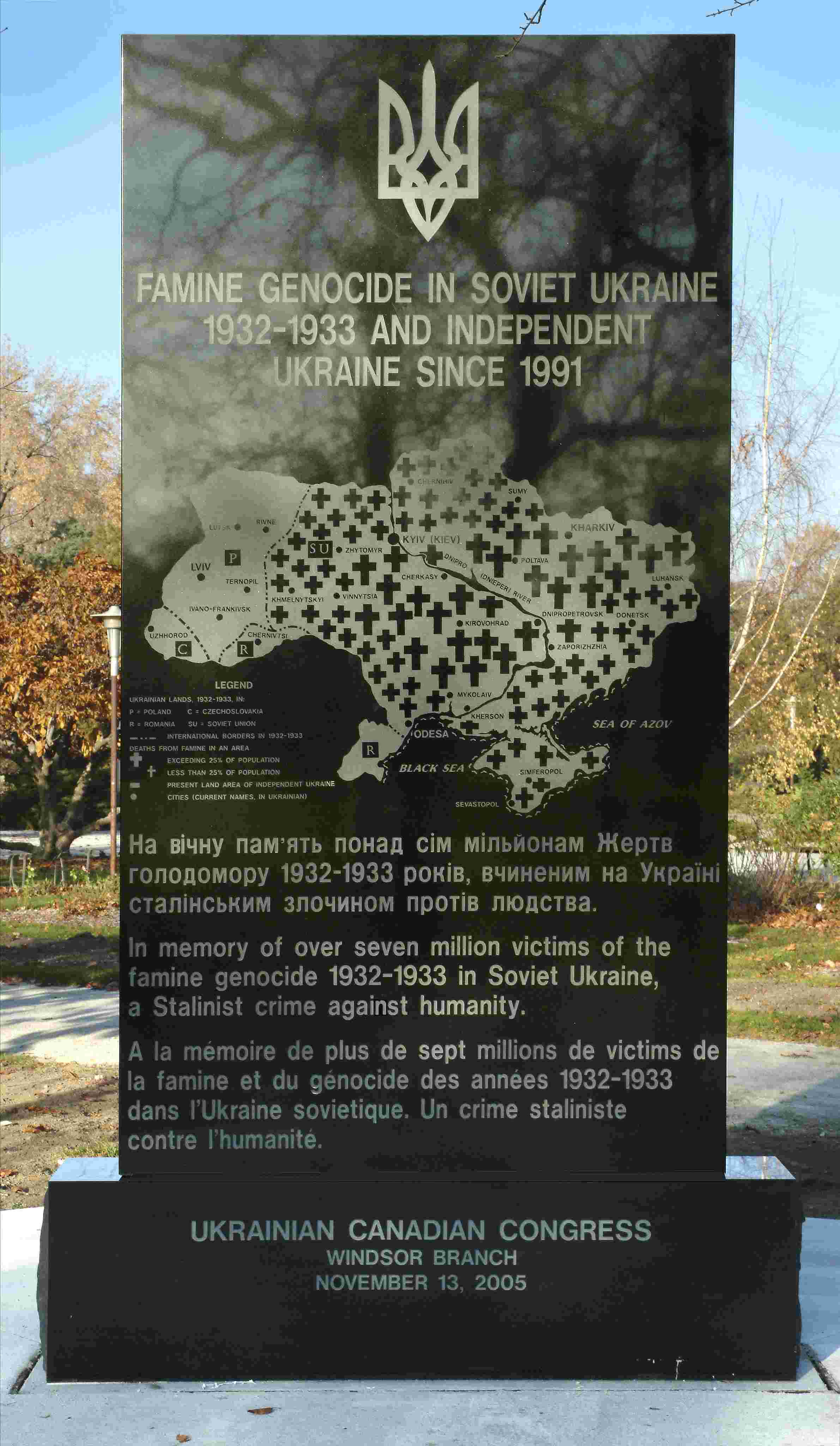 Queen Elizabeth II Gardens, Jackson Park, Windsor, Ontario, Canada. Built November 13, 2005. Initiative by: Ukrainian Canadian Congress, Windsor Branch Dedication is in (English, French and Ukrainian languages): "In memory of over seven million victims of the famine genocide 1932-1933 in Soviet Ukraine, a Stalinist crime against humanity." Explanation of the monument's design: (Ukrainian/English)